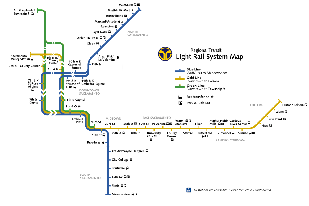 Author is self. Map of the Sacramento RT light rail system based on the official map at